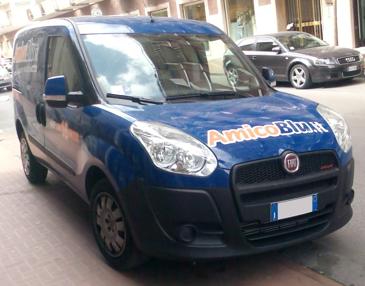 Fiat Doblò Cargo